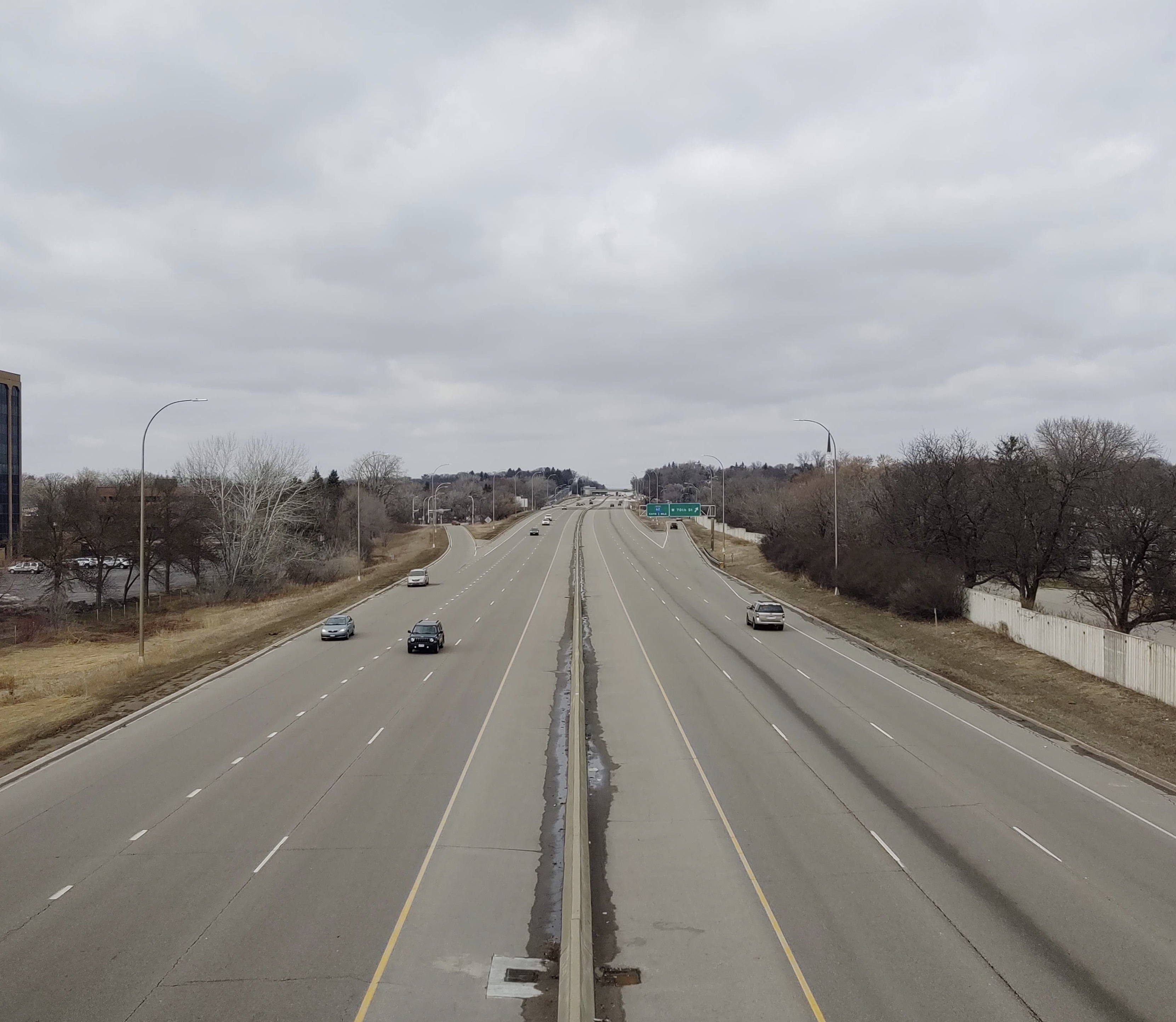 At Nine Mile Creek Trail Bridge